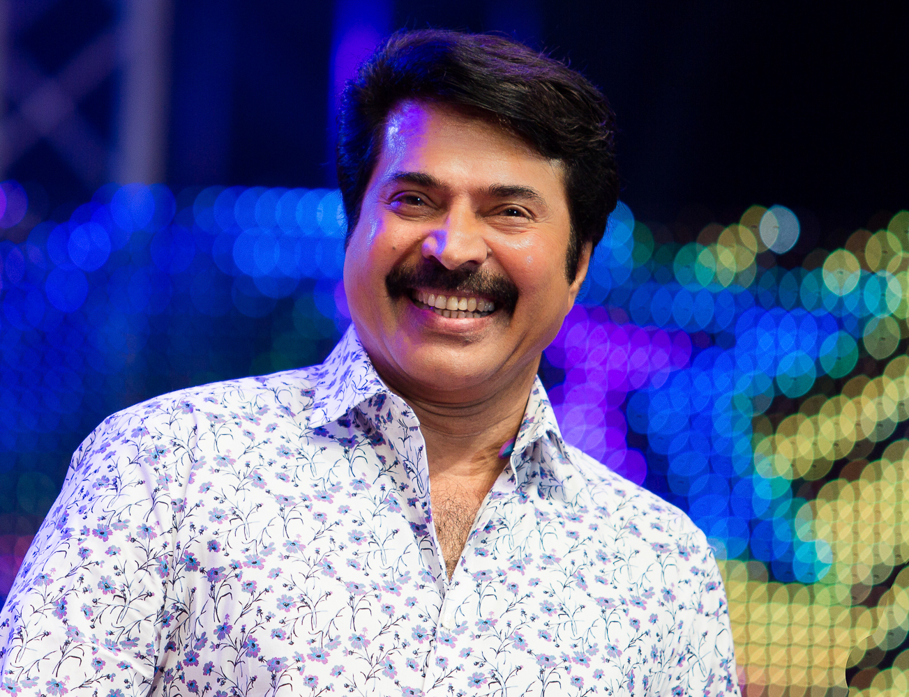 Mammootty during Asiavision Awards 2013